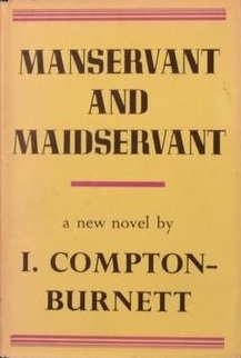 Cover of the first edition of Manservant and Maidservant